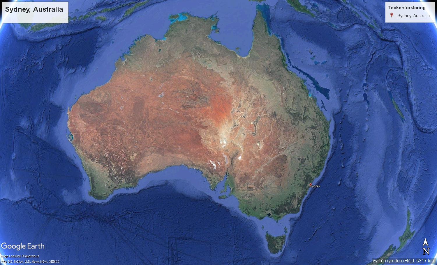 Sydney, Australia, 2019